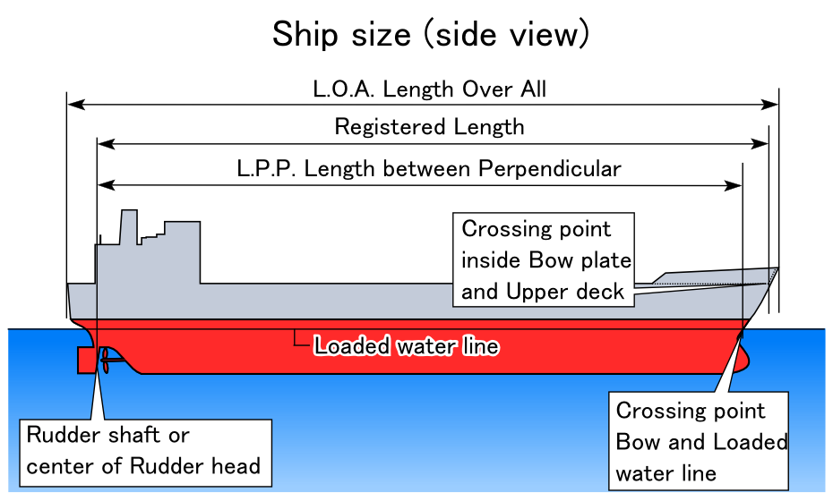 schematic drawing of ship's size